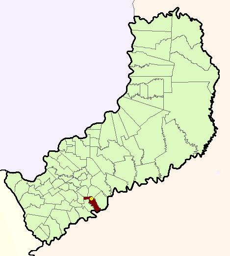 Map showing municipio of Florentino Ameghino in Misiones Province, Argentina. Yellow point marks Florentino Ameghino town.